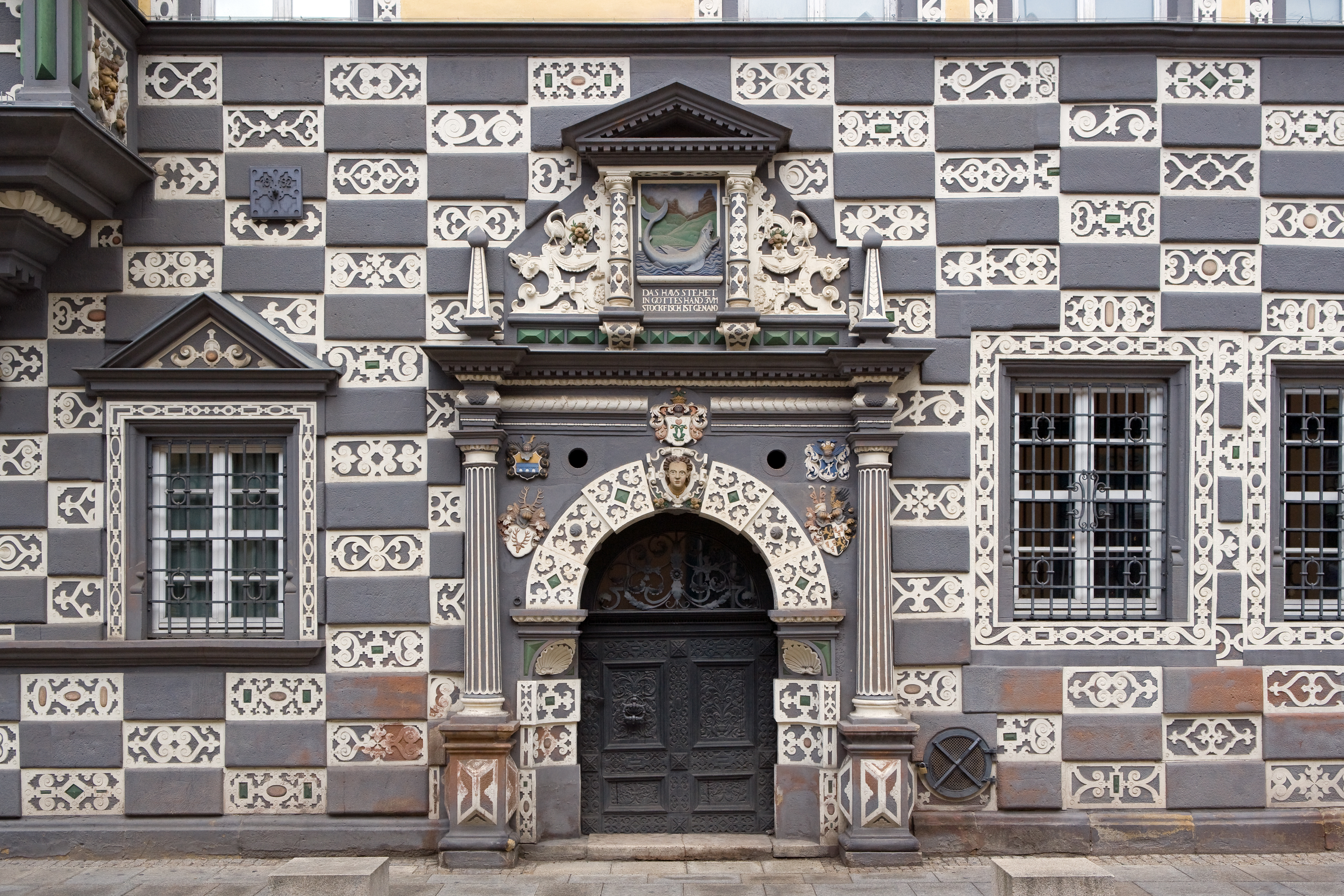 Erfurt: Haus zum Stockfisch (House to the Stockfish), ground floor with portal as seen from the west